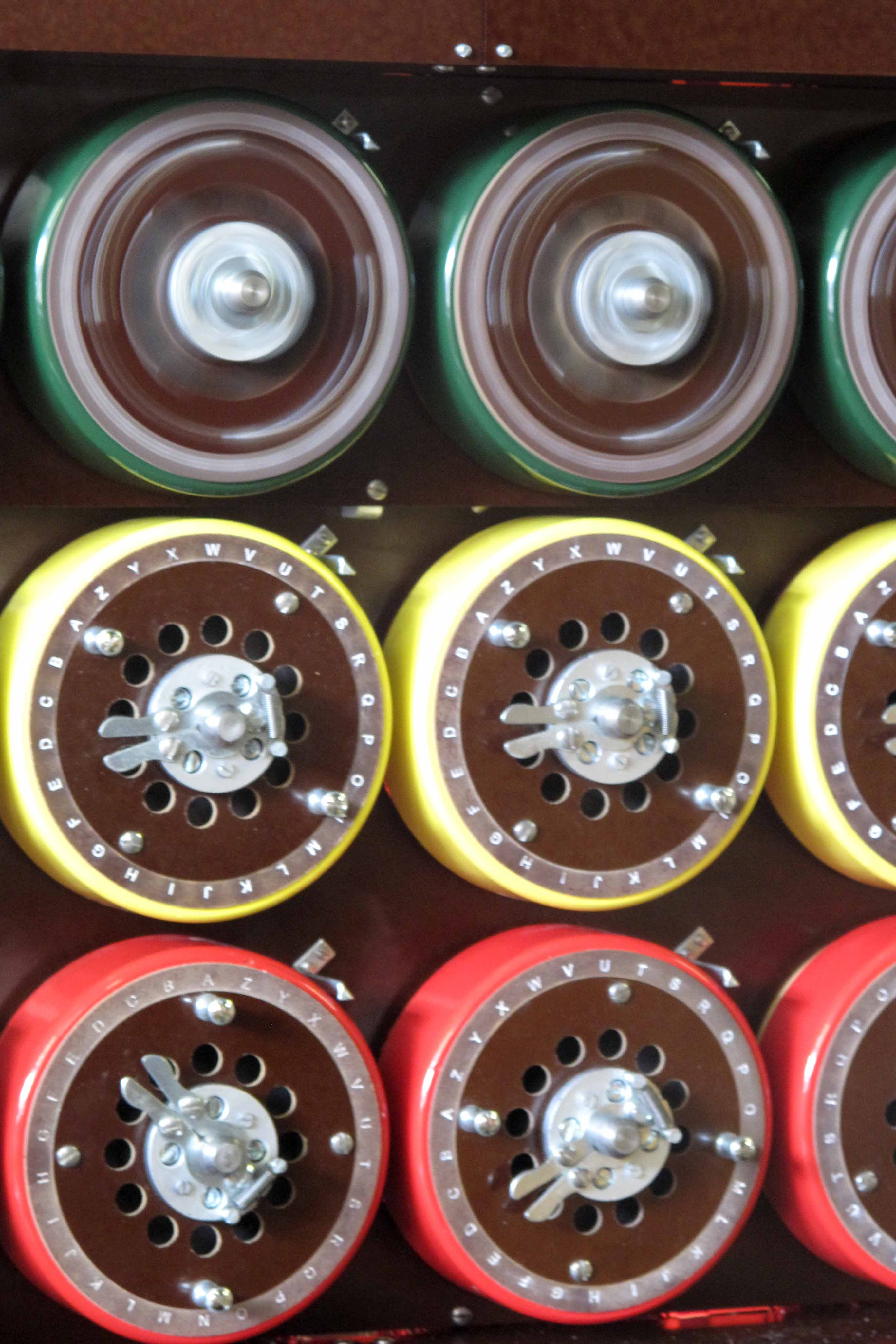 Drums on the rebuilt Bombe in action. The upper 'fast' drum corresponds to the left-hand Enigma rotor (No. III), the middle to the middle rotor (No. IV) and the bottom one to the right hand rotor (No. I).